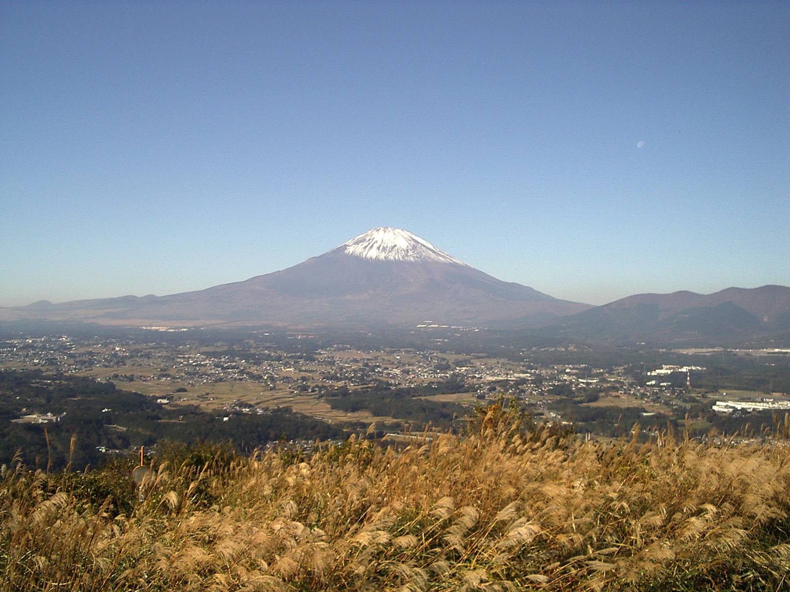 The East face of Mt.Fuji as seen from Ashigara Pass. 足柄峠から東に望む富士山。なお座標は目安です。